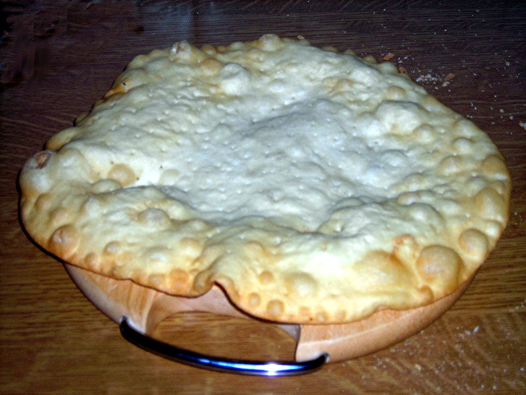 arvoltolo, sort of fried bread typical of Perugia province, Umbia, Italy